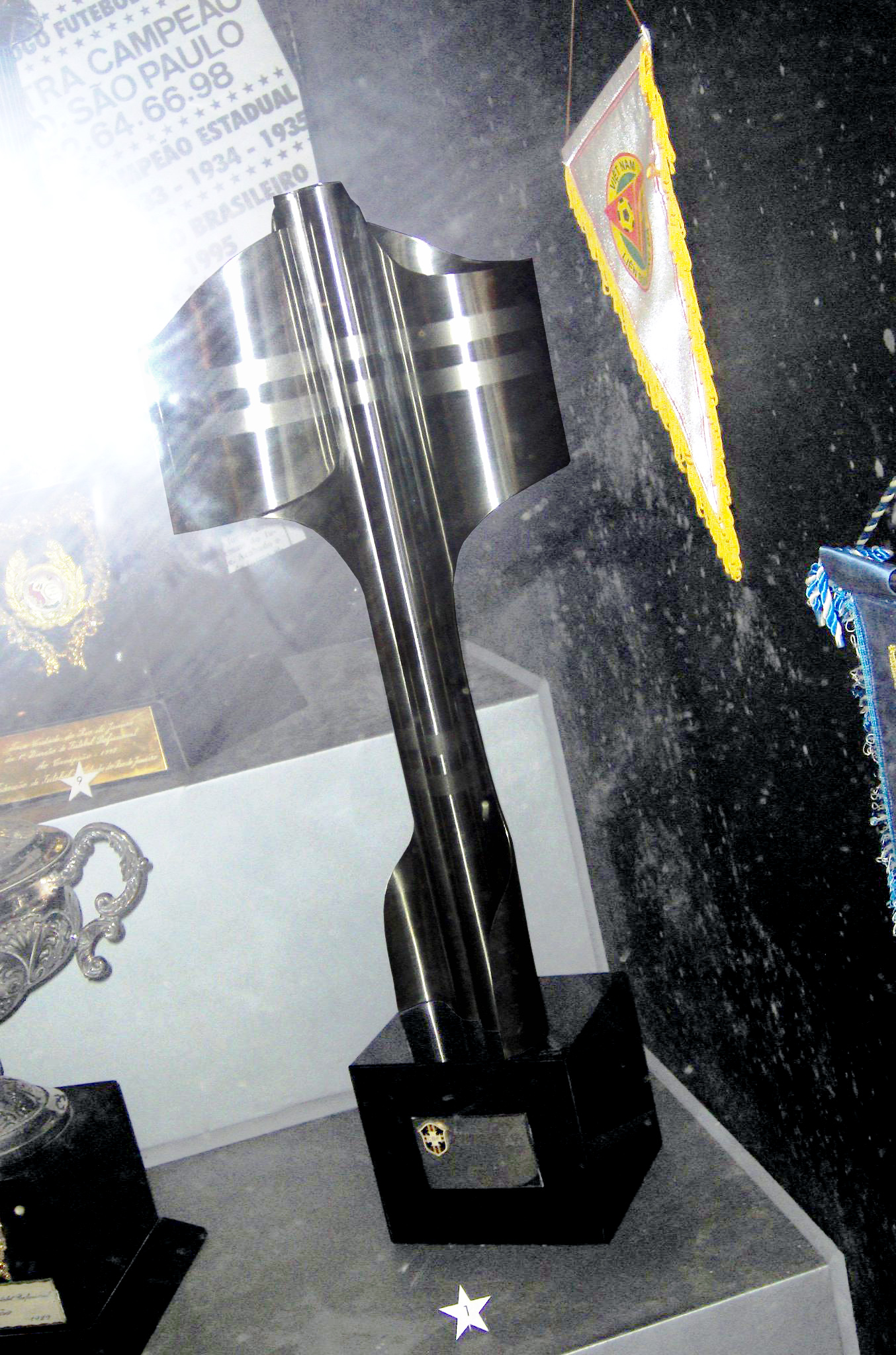 Photo of the trophy of Brazilian Championship won by Botafogo de Futebol e Regatas in 1995.